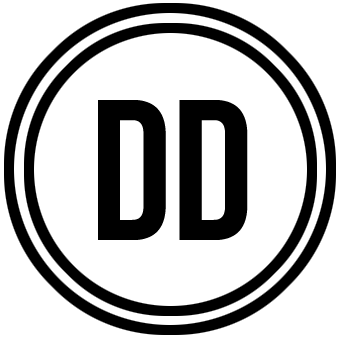 The current Defense Distributed logo, as seen from their media and web content.